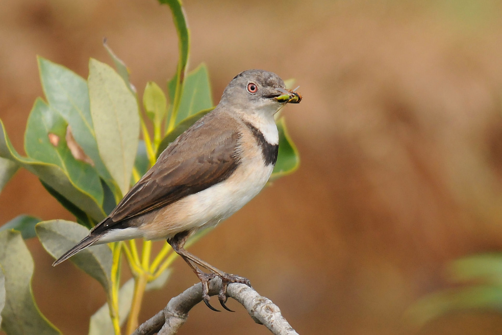 White-fronted Chat returns to perch with an insect. Ash Island, Newcastle NSW Australia.